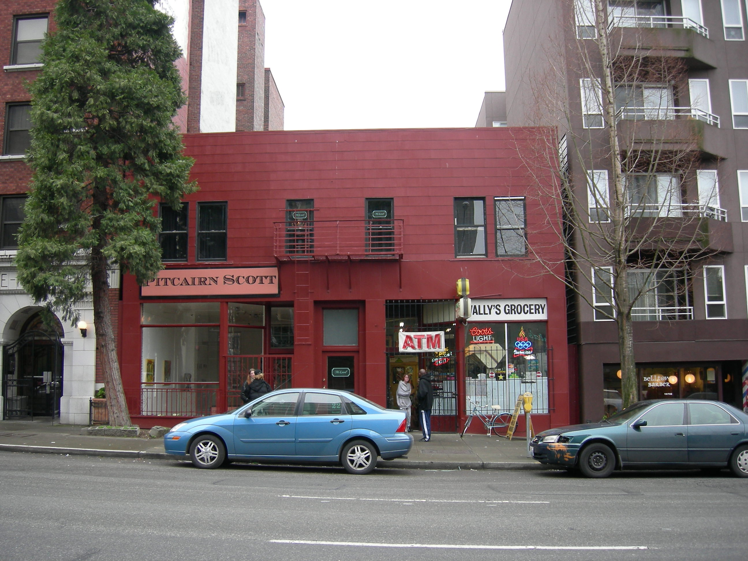 McLeod Residence (upstairs), 2nd Avenue, Belltown, Seattle, Washington. The building once had two more storeys. The upper of the two remaining storeys were, at the time of this photo) the McLeod Residence, an art gallery (opened January 2007) and soon-to-be bar (opening slated for spring 2007). on the Internet Archive. The McLeod Residence lasted only a few years, and the building was demolished in the late 2010s.